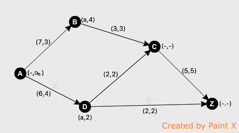 Slika 1.6